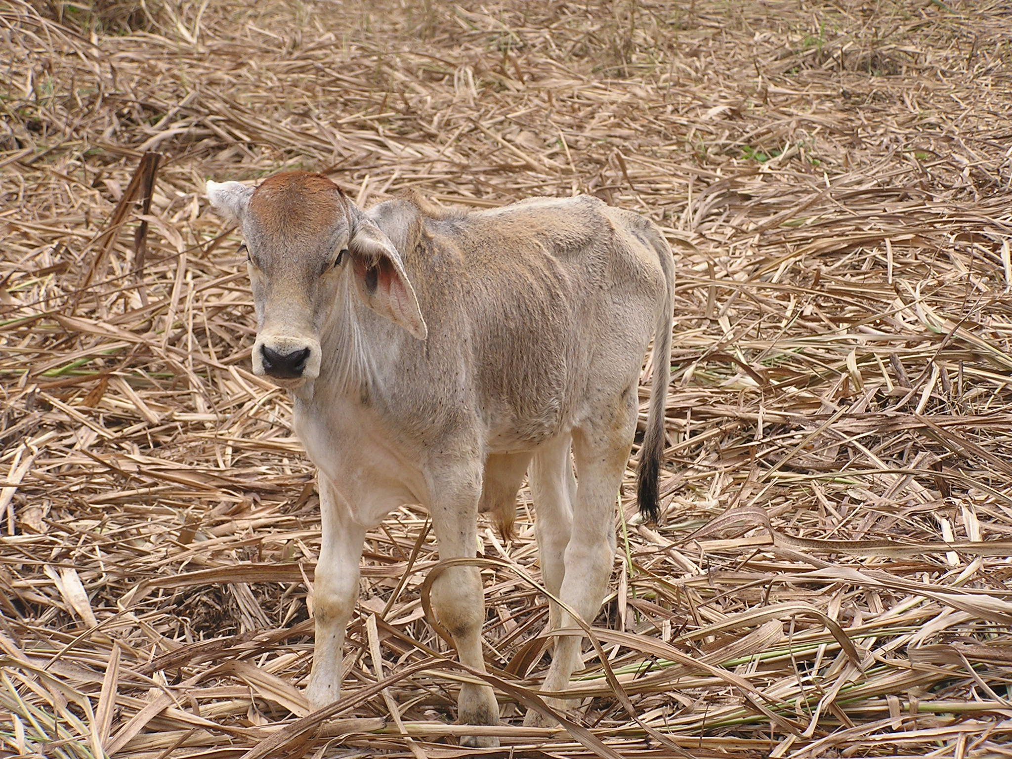 A calf of a Philippine cattle